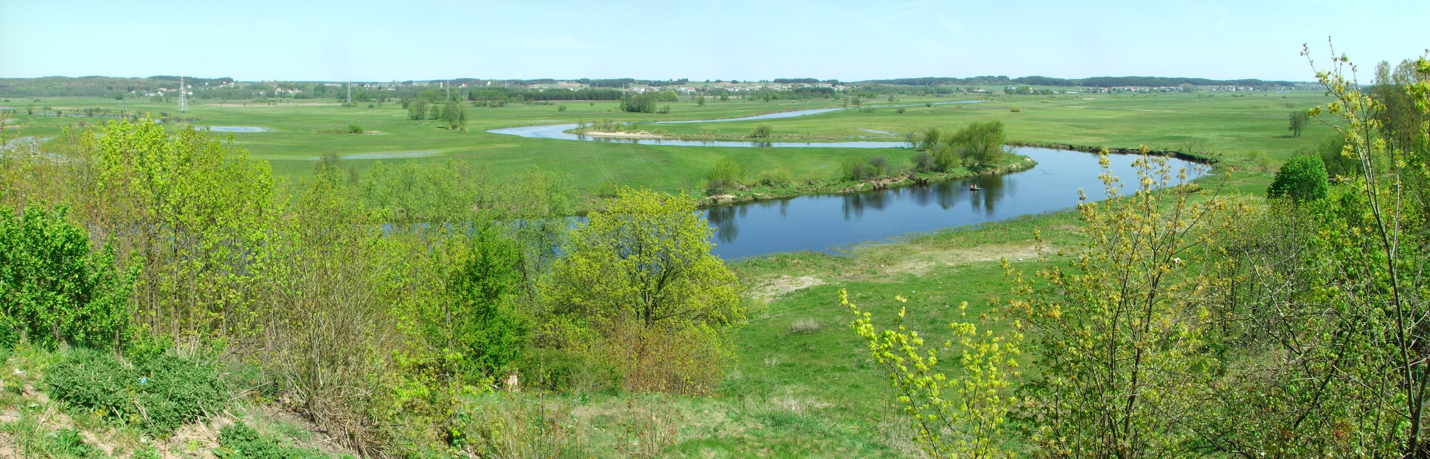 A panorama of Narew river, near Łomża, Poland. The river flows slowly creating meanders. Approximate position of the viewpoint is +53° 7' 55.20", +22° 9' 26.51", in Siemień village. Shot with FUJI FinePix S5100 and stitched together using free software: autopano-sift, Hugin, Enblend.